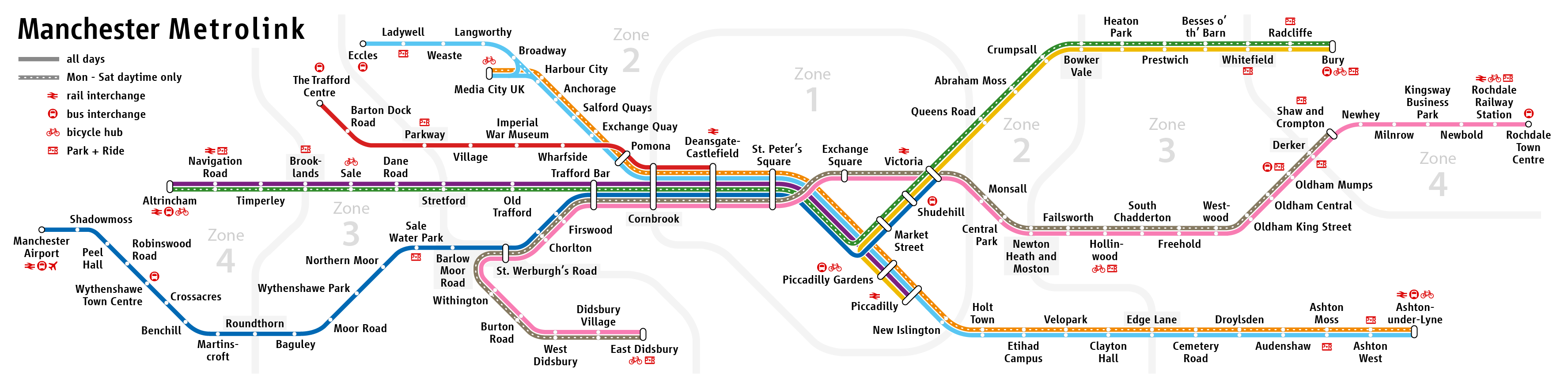 Map of the Manchester tramway "Manchester Metrolink"